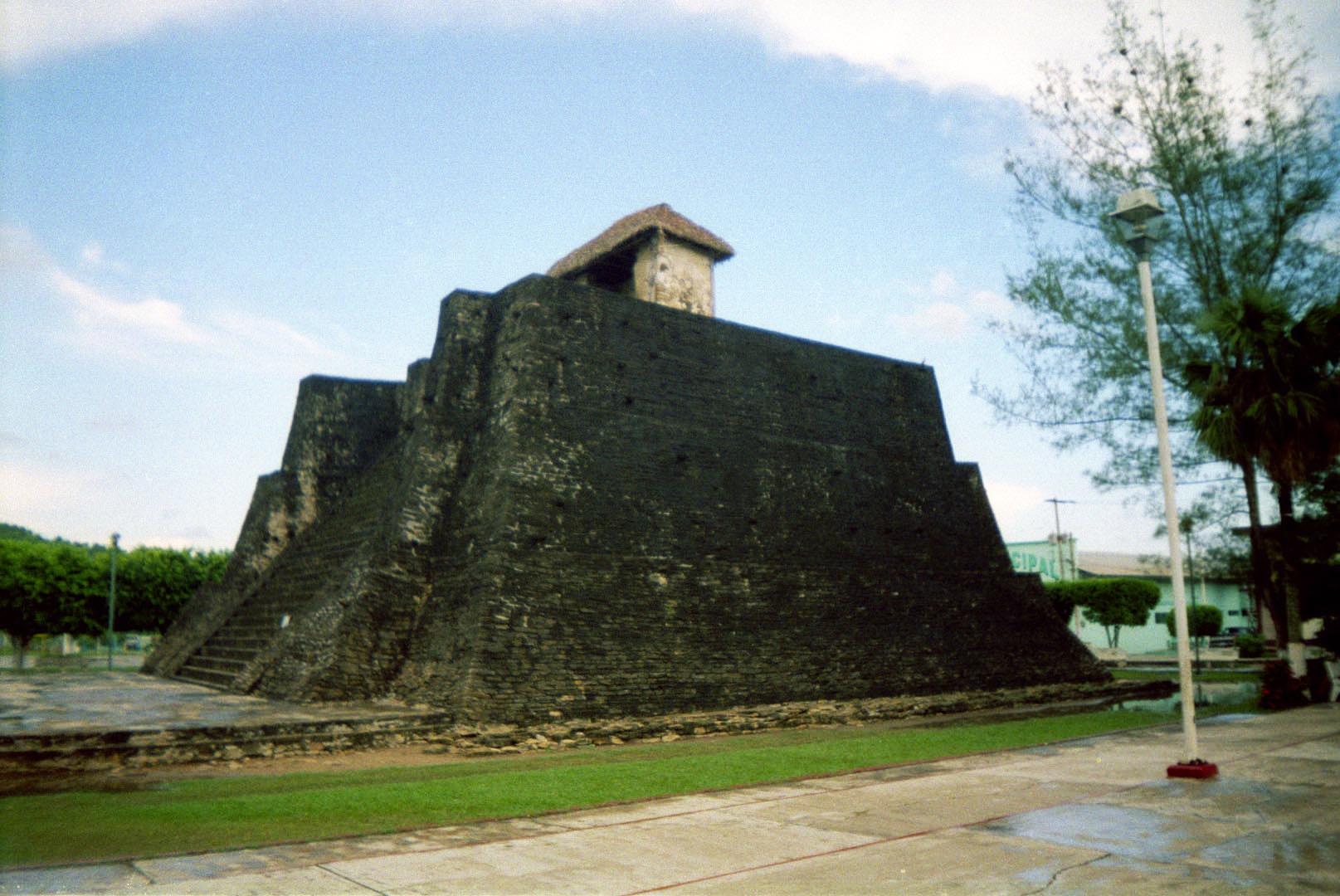 Castillo de Teayo in Veracruz state, Mexico